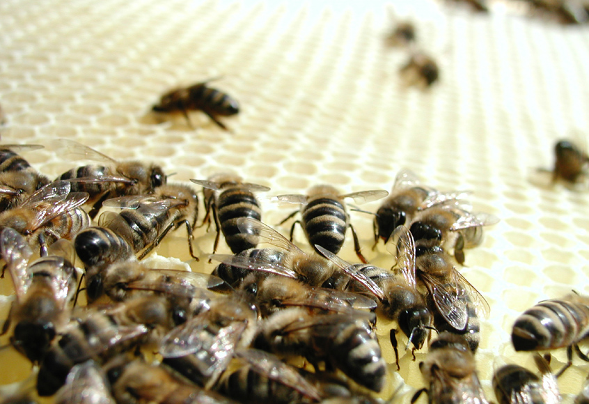 Bees on honeycomb